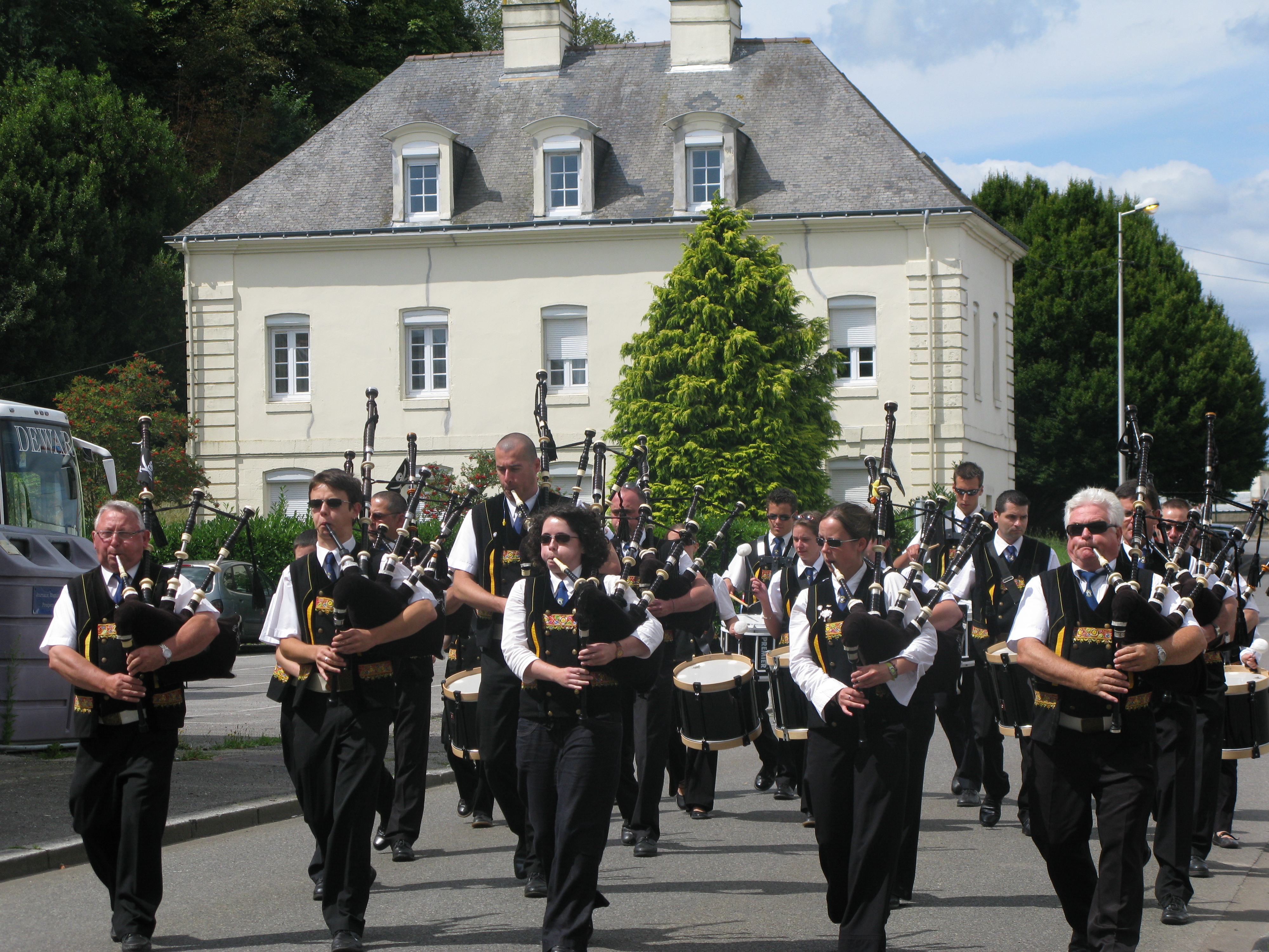 Karreg An Tan bagad from Briec in Finistère, France, during a contest held in the Interceltic Festival of Lorient in 2009.